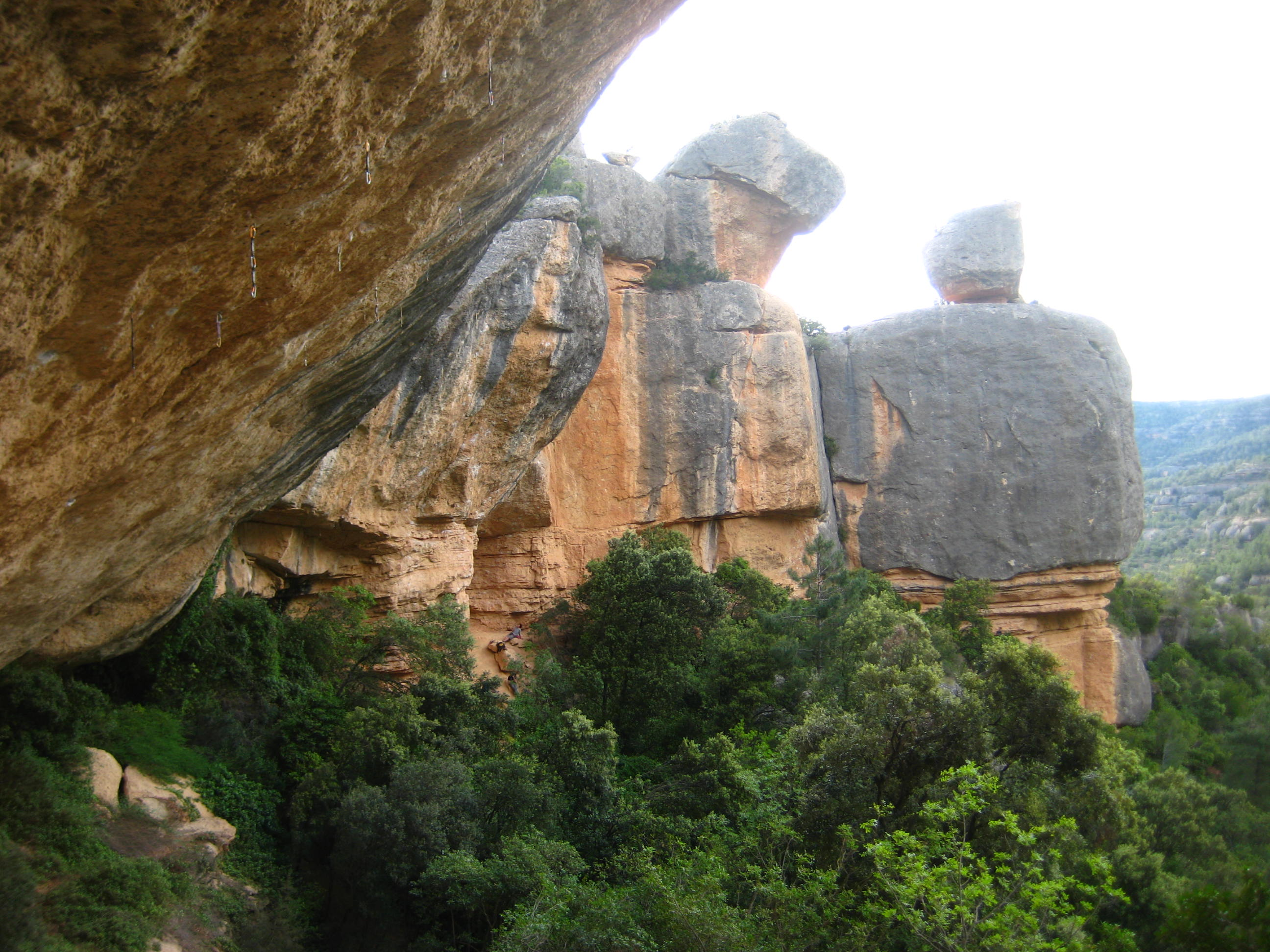 Natural rocks in Margalef, Catalunya, Spain. Overhanging climbing route with quickdraws in place.